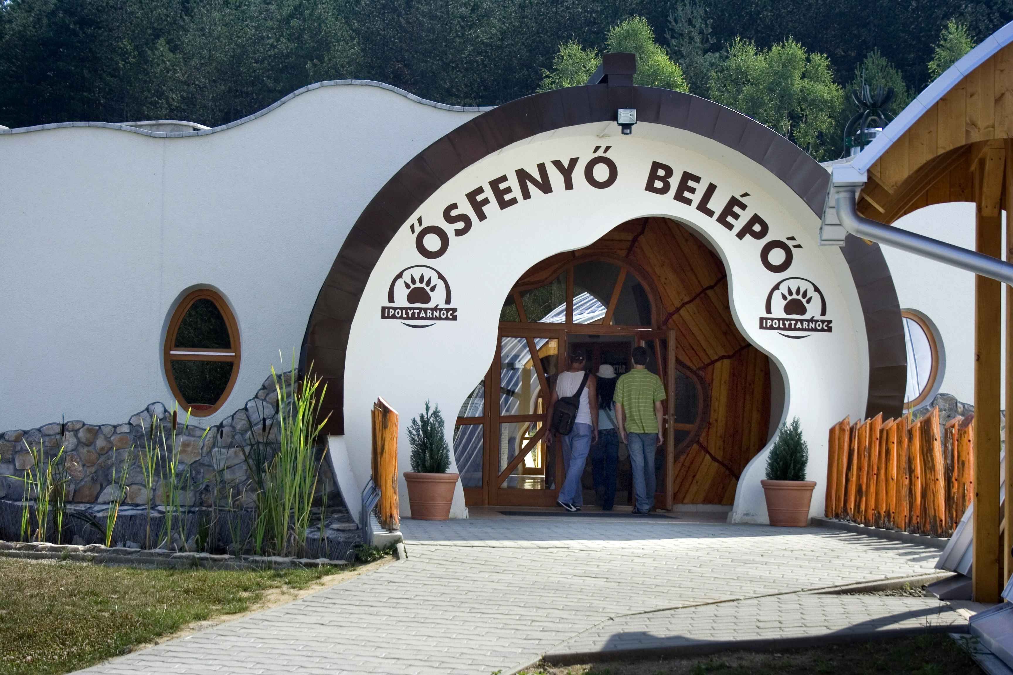 Ipolytarnóc ancient pine museum entrance Hungary